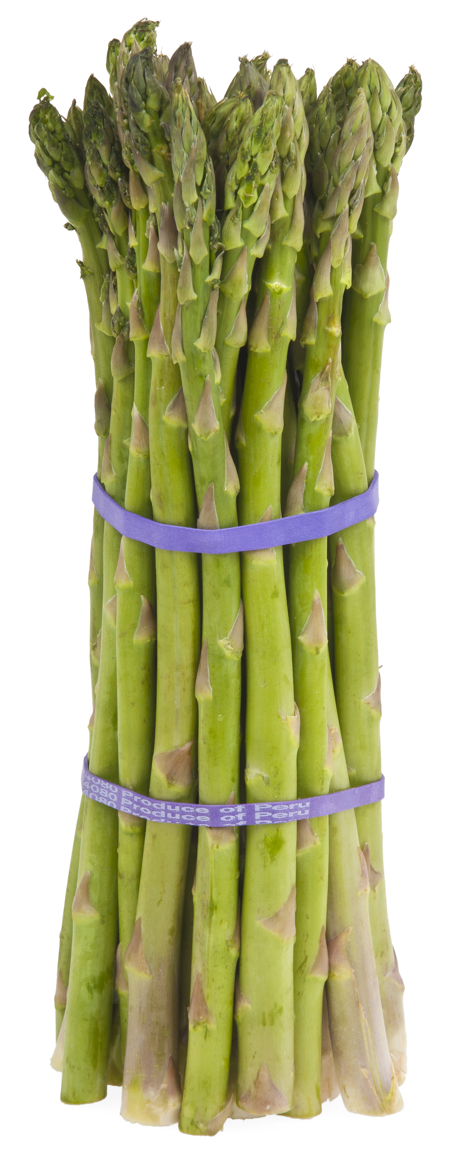 A bundle of asparagus spears as bought from a grocery store.